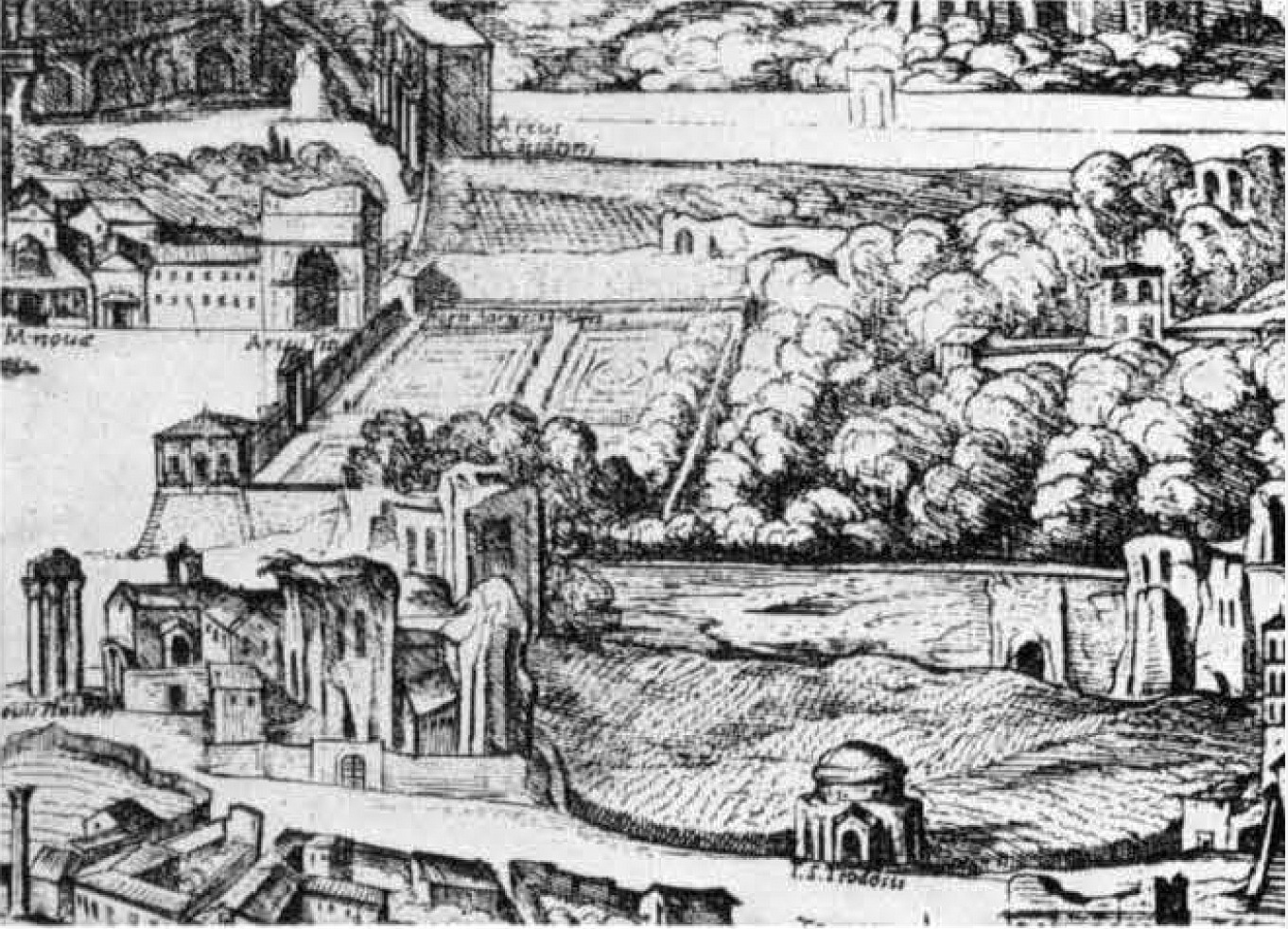 Palatine (Rome); Detail of map by Antonio Tempesta (1593)